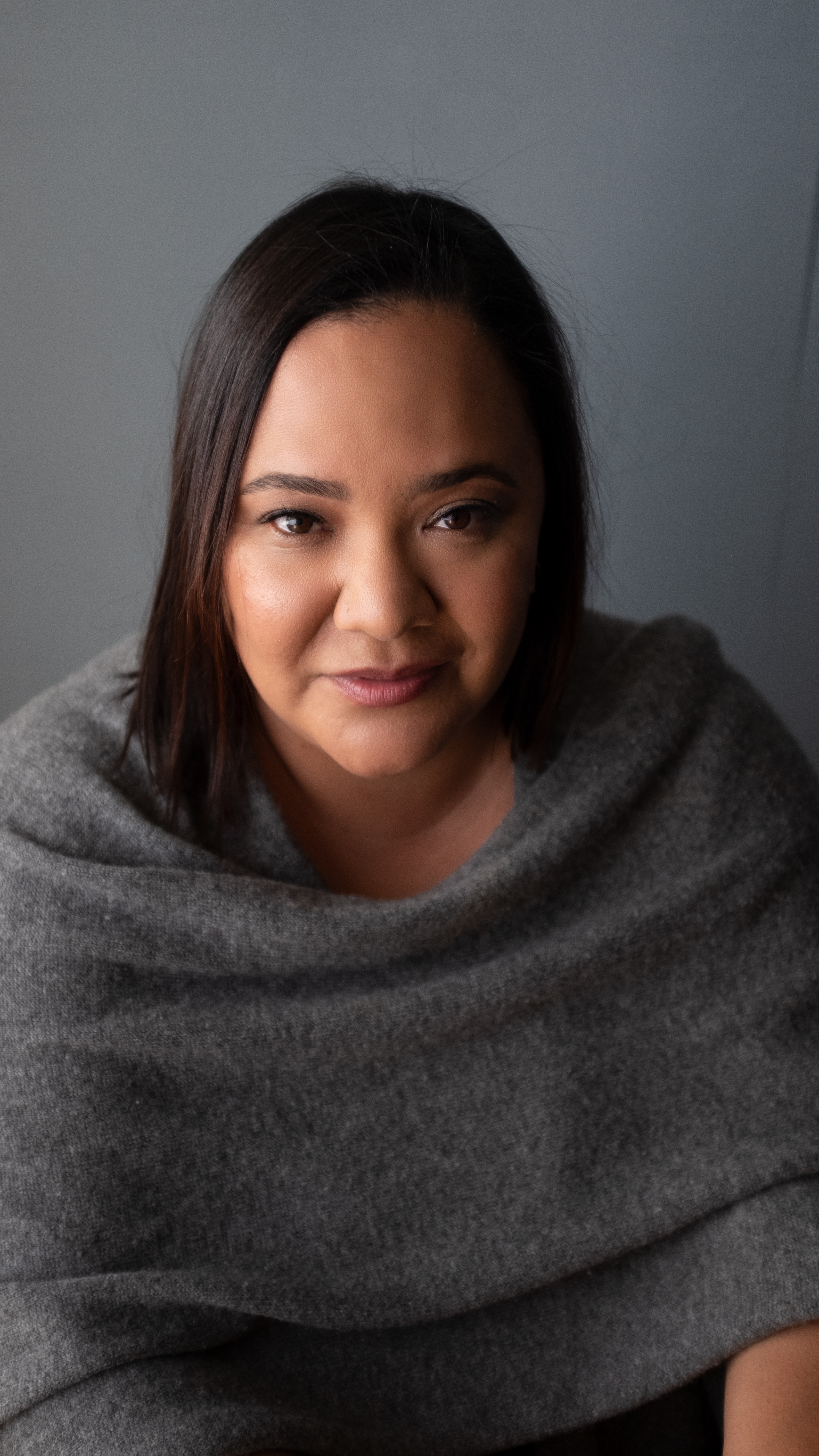 Depicted person: dream hampton – American filmmaker